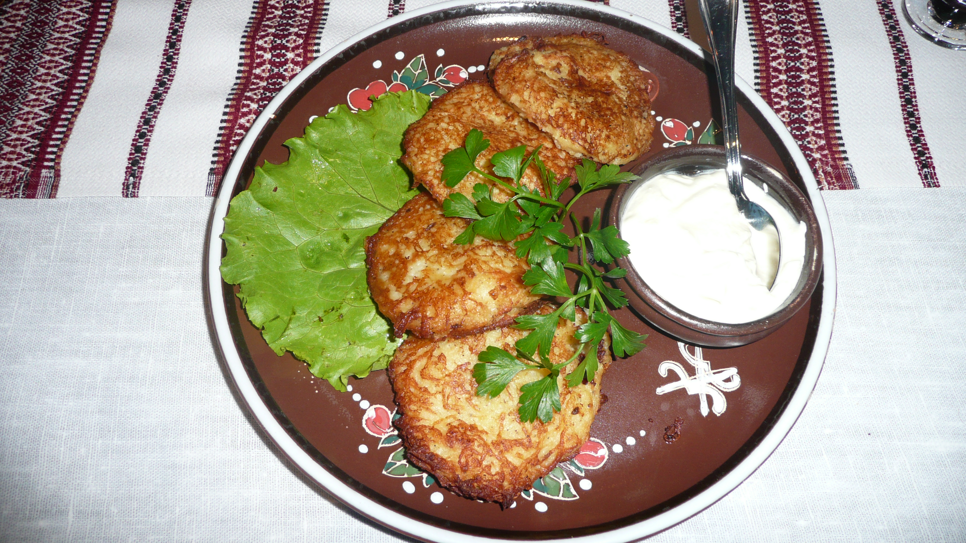 Deruny - Ukrainian Potato Pancakes, filled with meat, in the Korchma - Restaurant of Traditional Ukrainian Cuisine in Zaporizhia